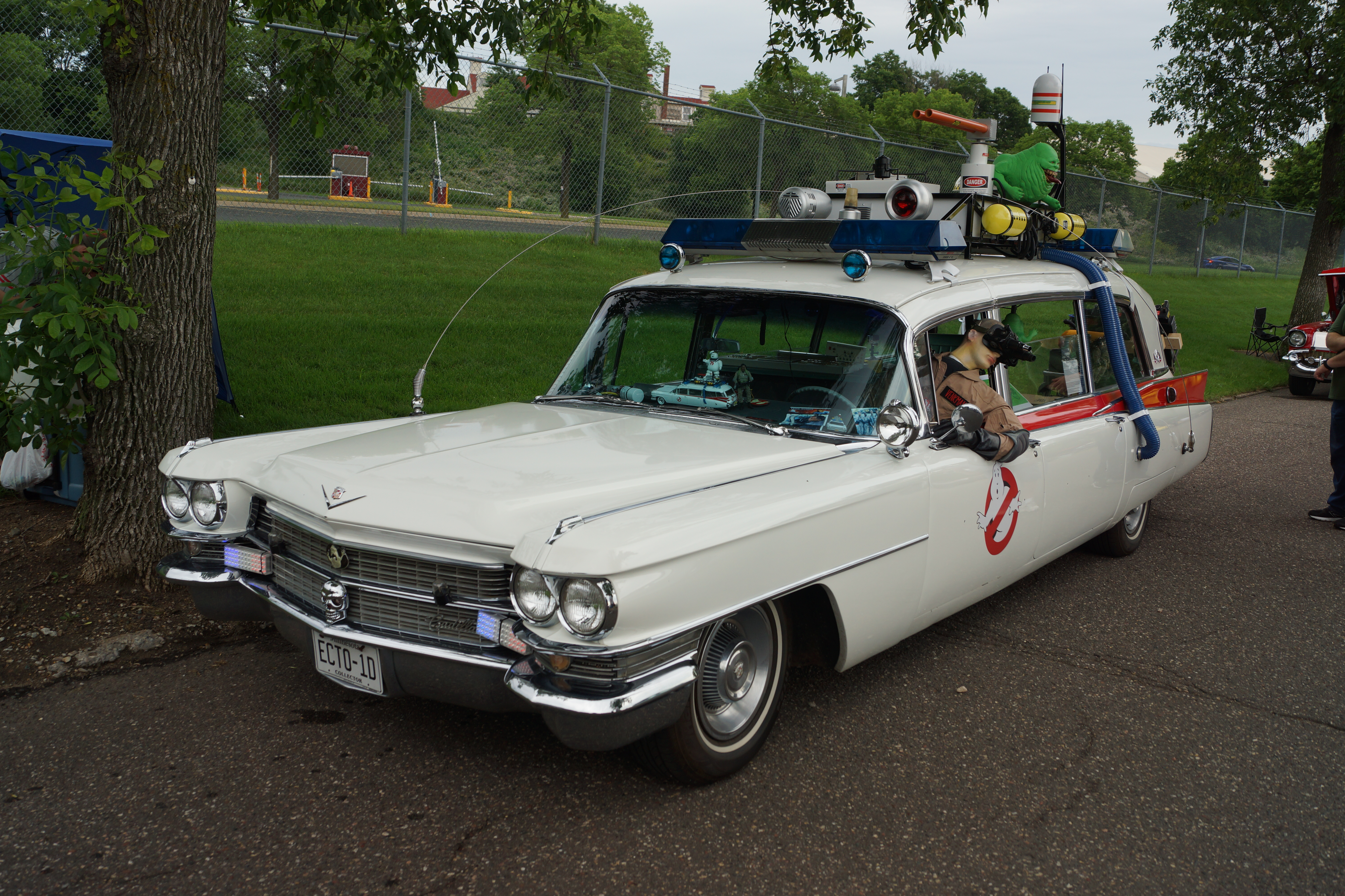 1963 Cadillac Ambulance "Ghostbuster's Tribute"